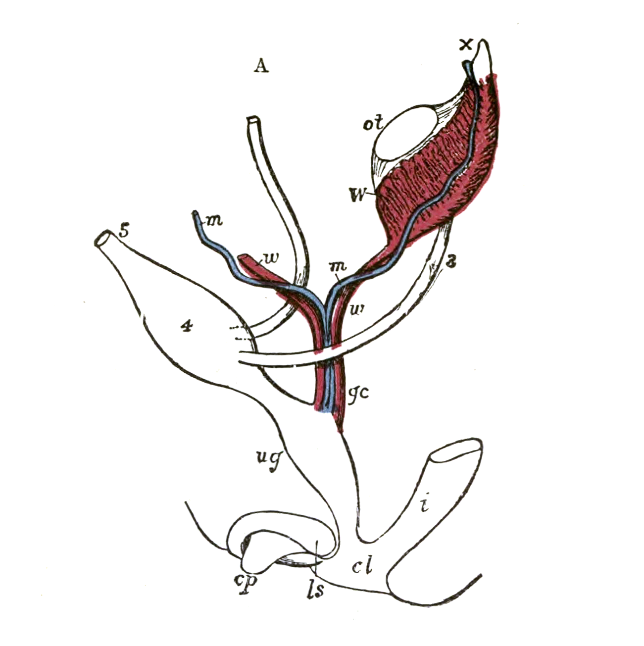 Diagrams to show the development of male and female generative organs from a common type. (Allen Thomson.)